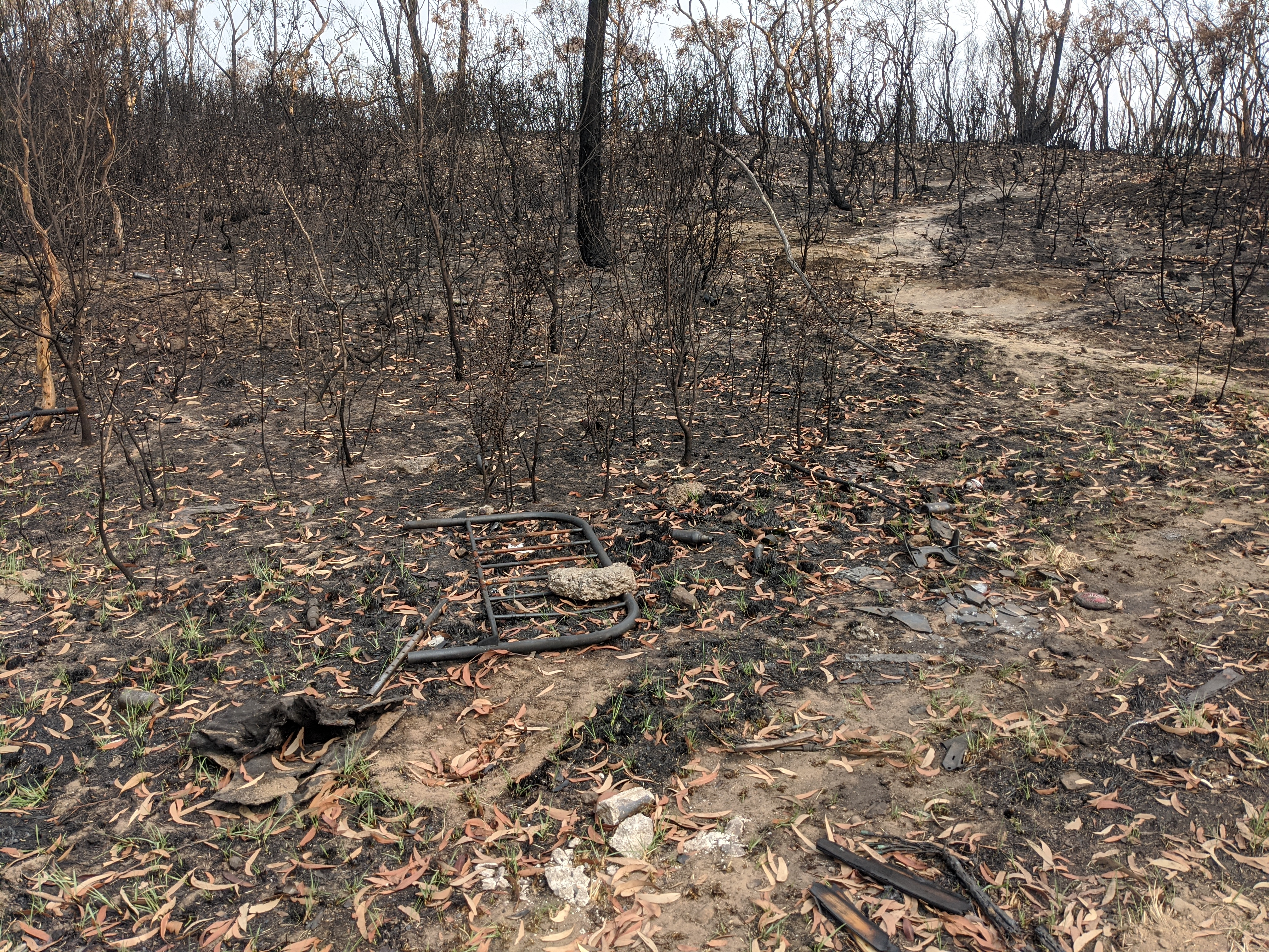 Blue Mountains bushfire damage, along Bells Line of Road